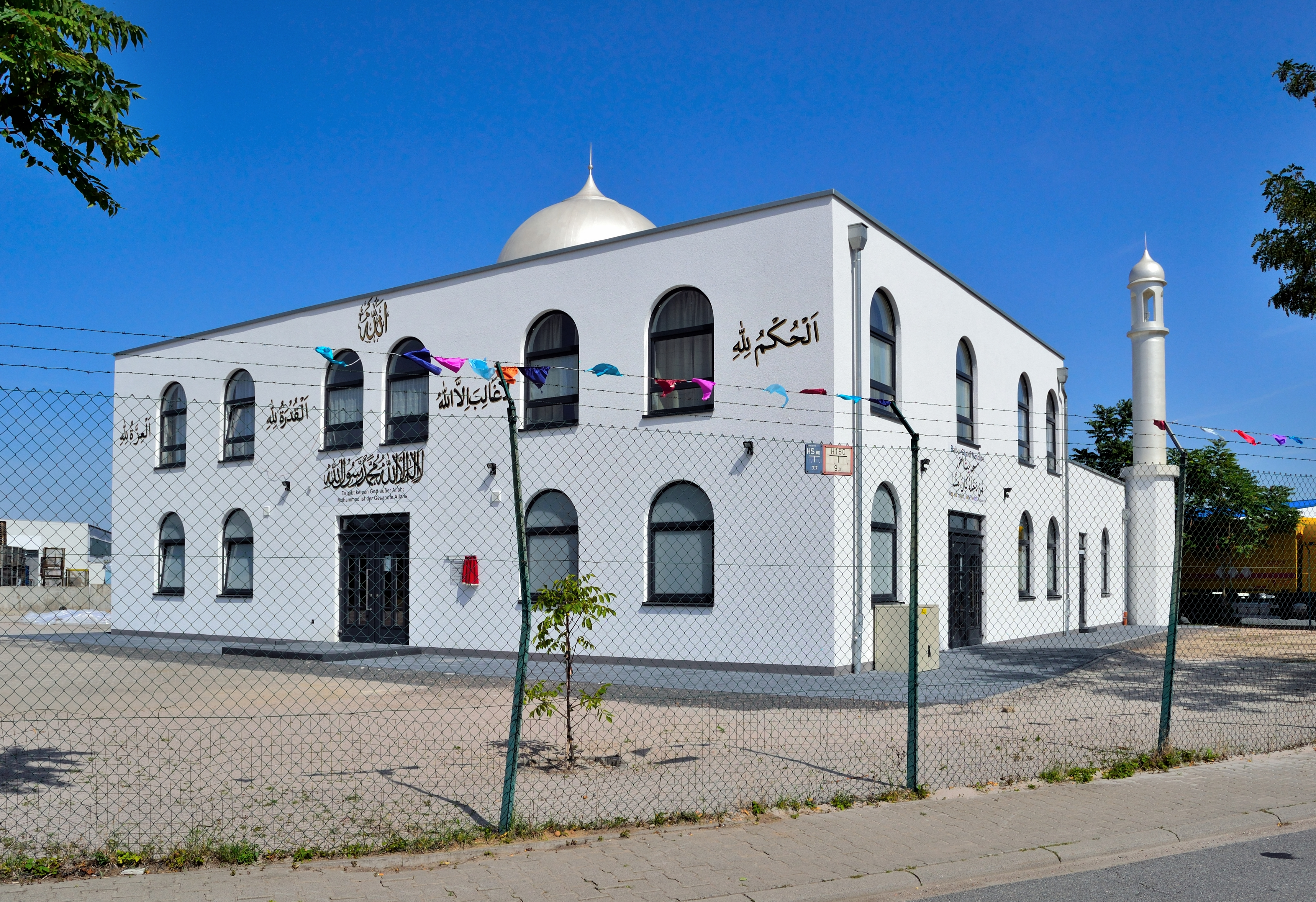 Baitul Ghafoor in Ginsheim-Gustavsburg. The Mosque was built by the Ahmadiyya Muslim Community